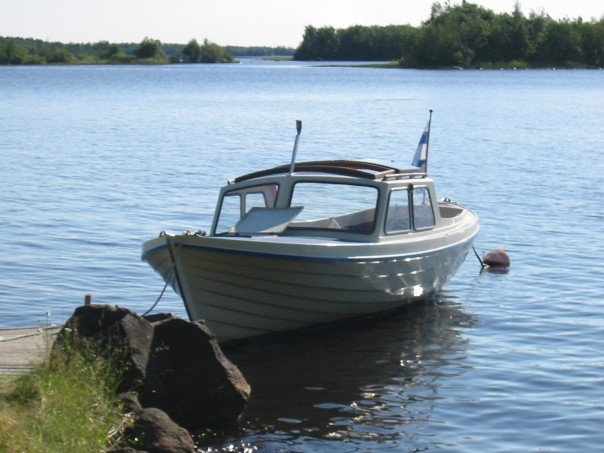 Picture of a Brännbacka 23 glassfiber boat made in Luoto, Finland